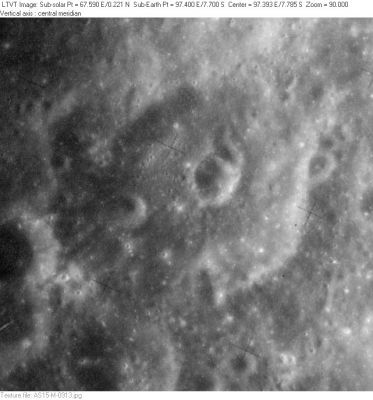 Ludwig lunar crater - Apollo-15 image AS15-M-0913 LTVT